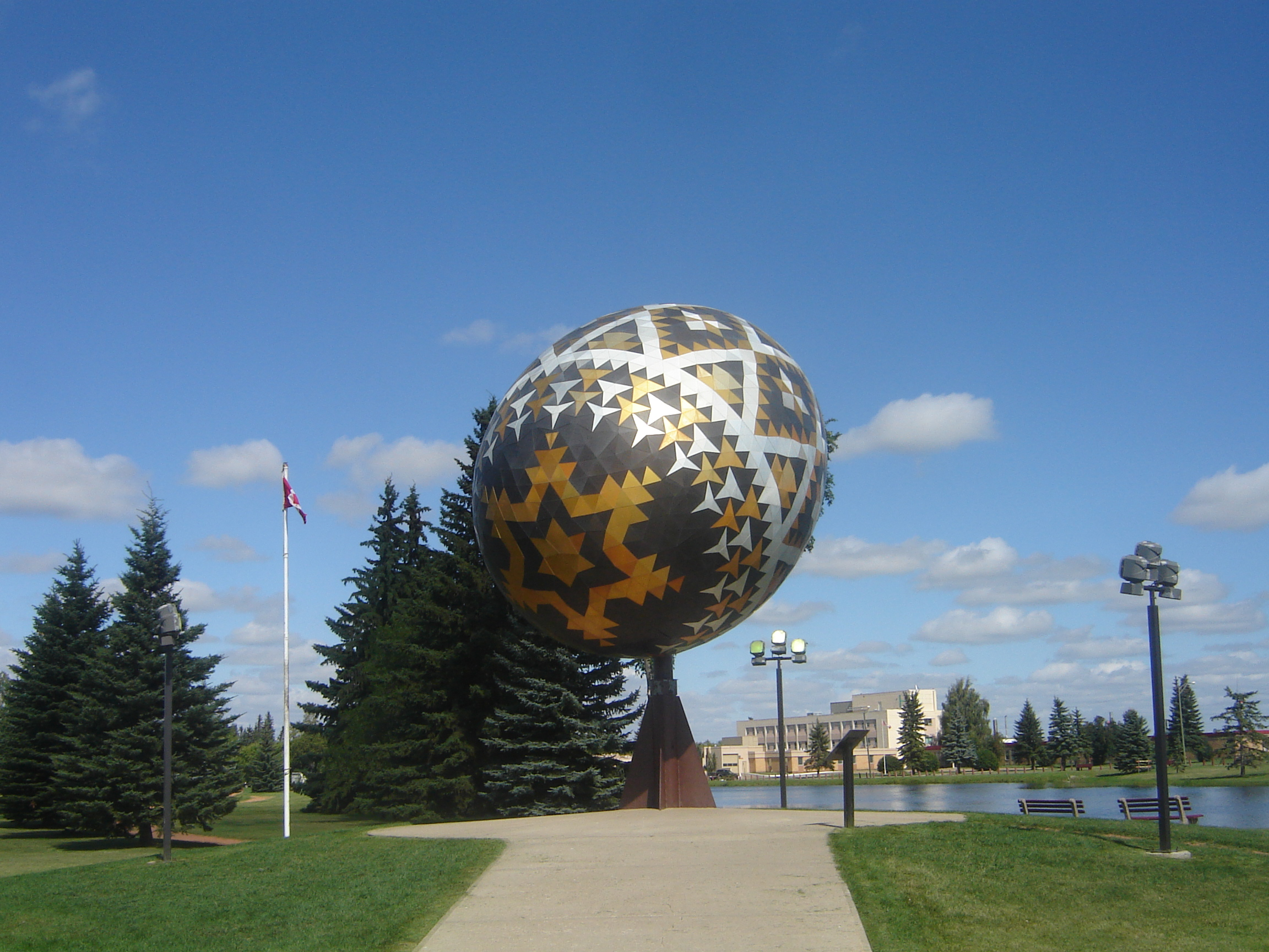 Vegreville, Alberta Pysanka